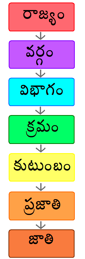 Scientific classification in Telugu language.